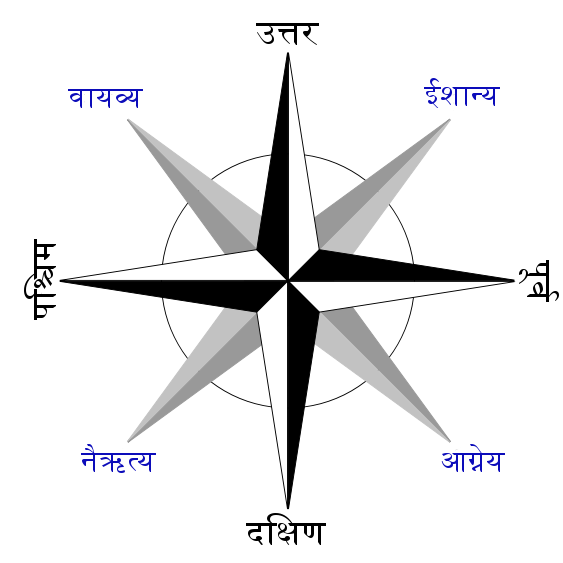 8 directions in Marathi